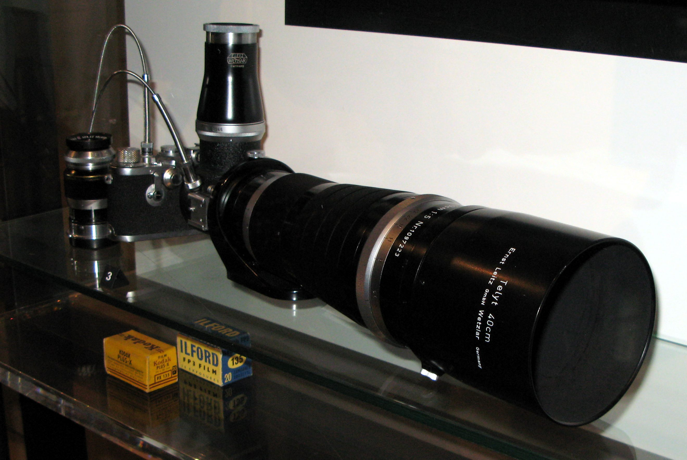 Leica III on display at Vevey photography museum